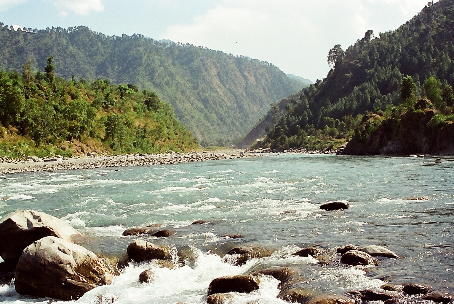 Ravi River, near Chamba.